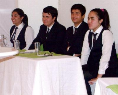 English debate team of Colegio Preciosa Sangre de Pichilemu, in 2012.